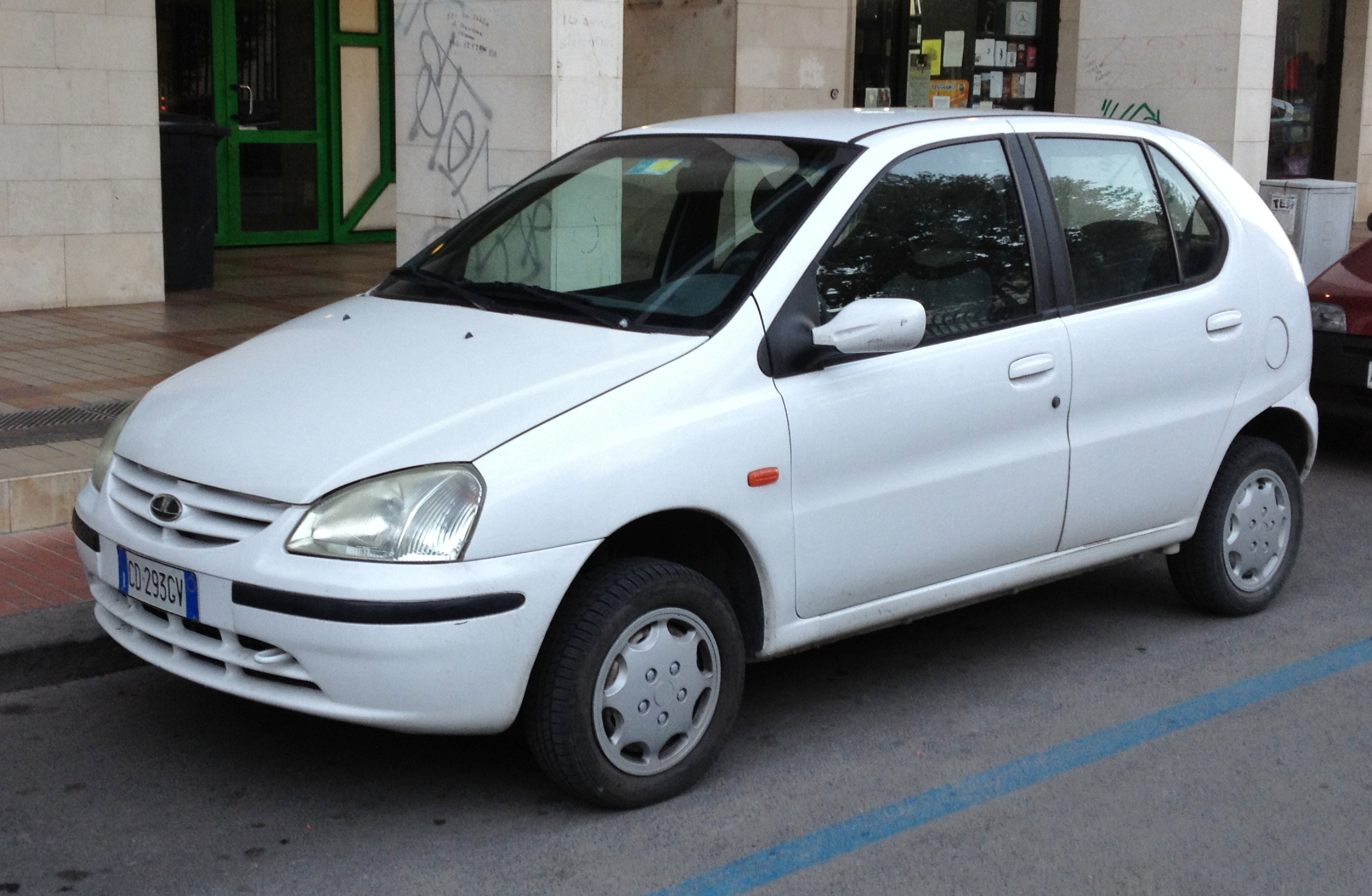 a blue Tata Indica diesel